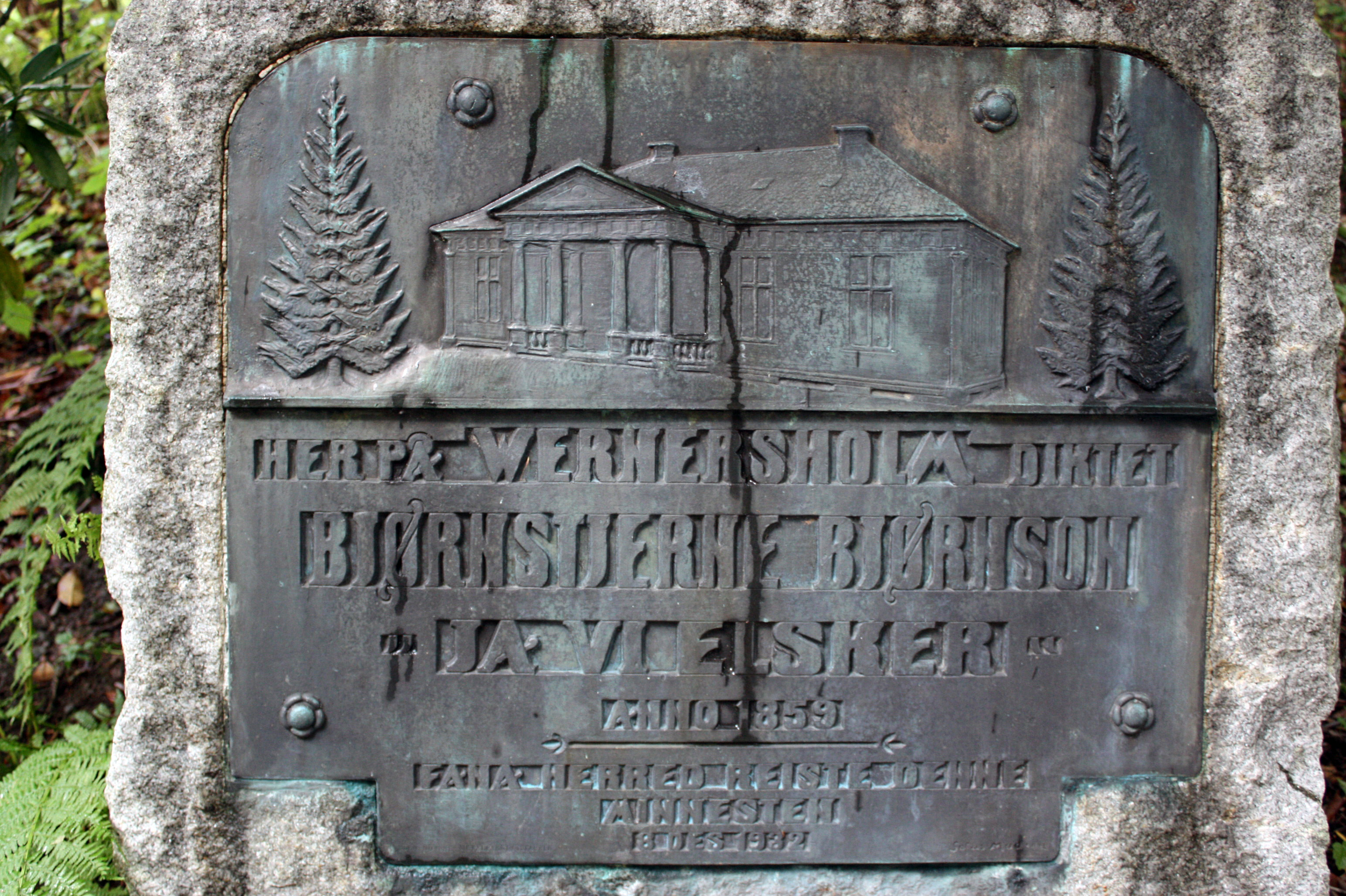 Memorial for the building where Bjørnstjerne Bjørnson wrote "Ja, vi elsker", the Norwegian national hymn.